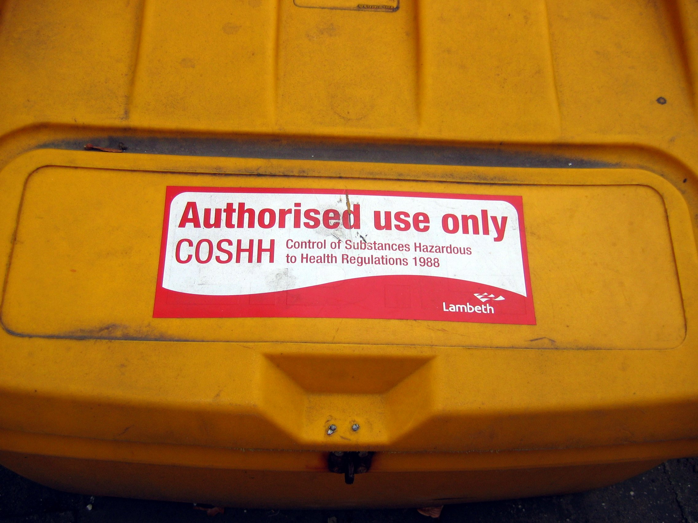 Yellow bin on the street with a COSHH notice. Lambeth, London, UK.